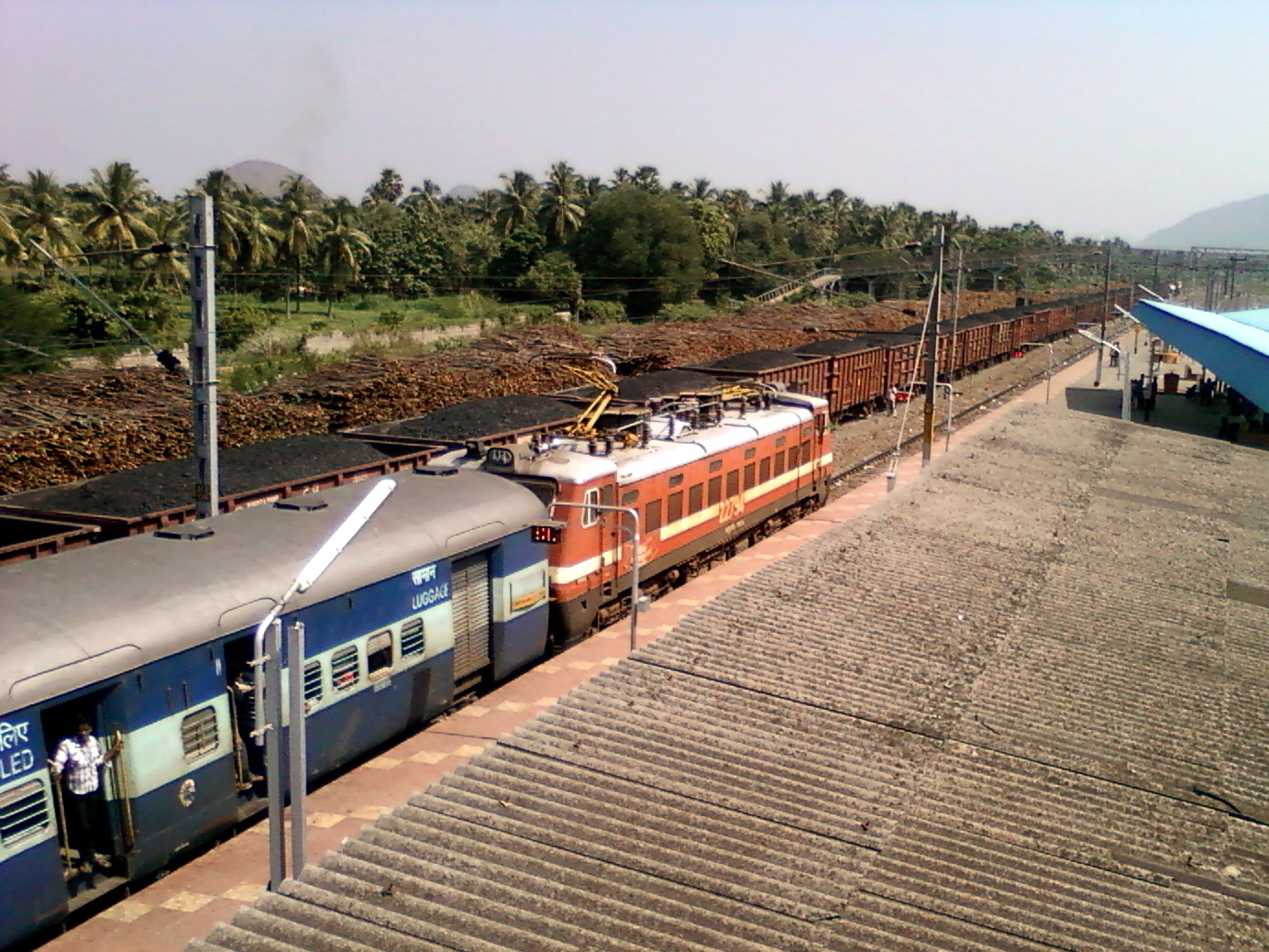 A View of Anakapalle Train station in Visakhapatnam district